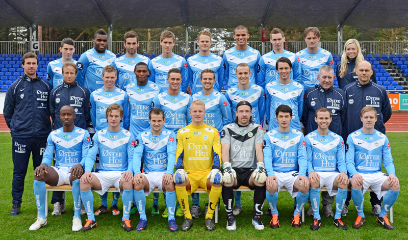 Sandnes Ulf lagbilde foran 2012-sesongen i Tippeligaen.